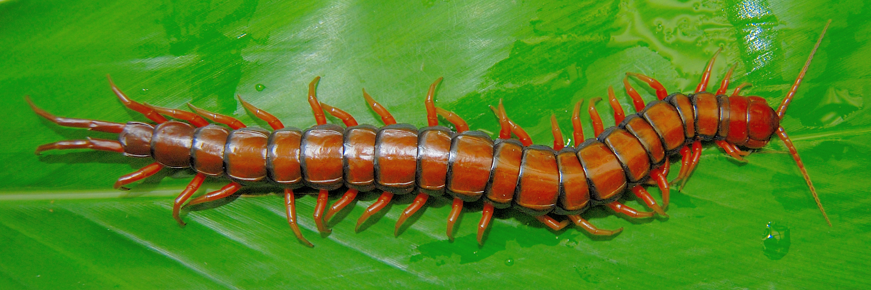 Bermuda, 7 July 2007, Sam Fraser-Smith